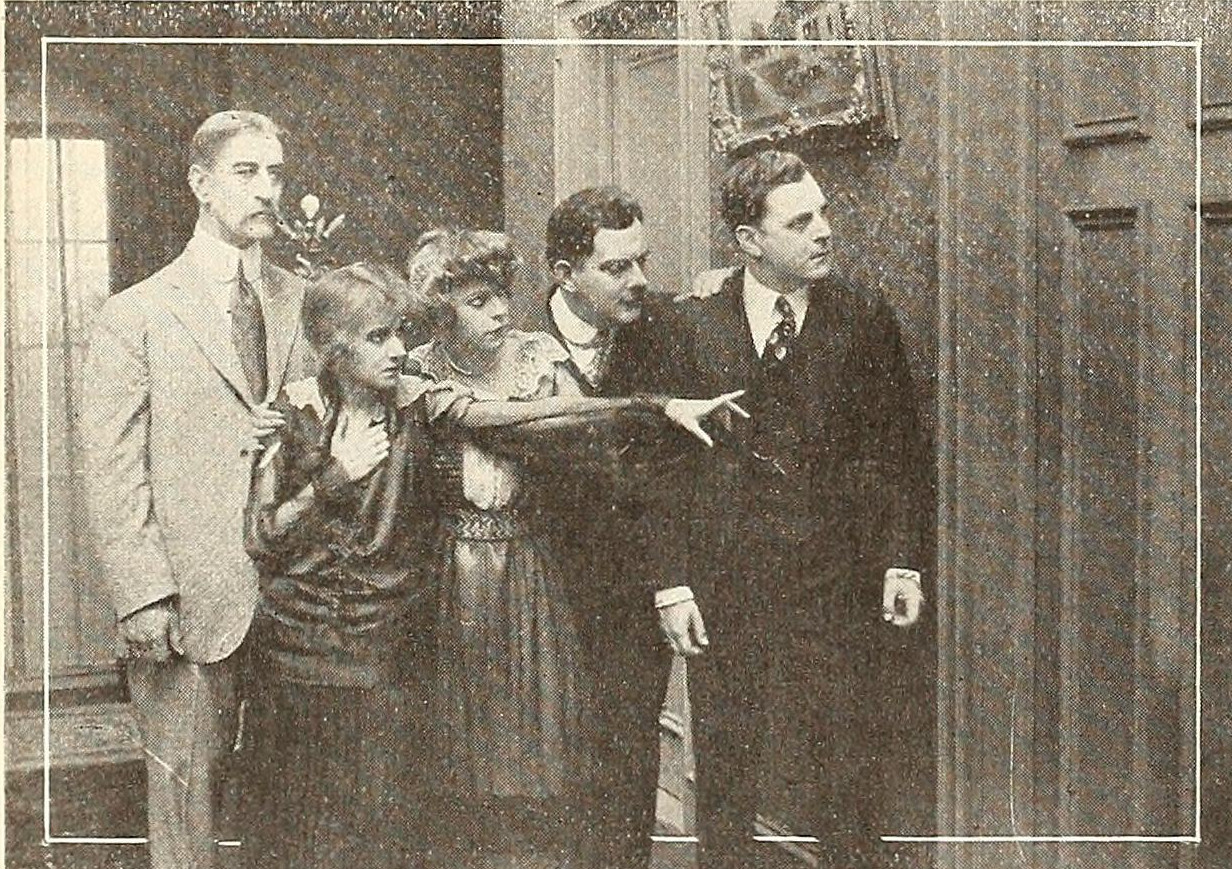 The Cross On the Door from The Man Inside (1916)